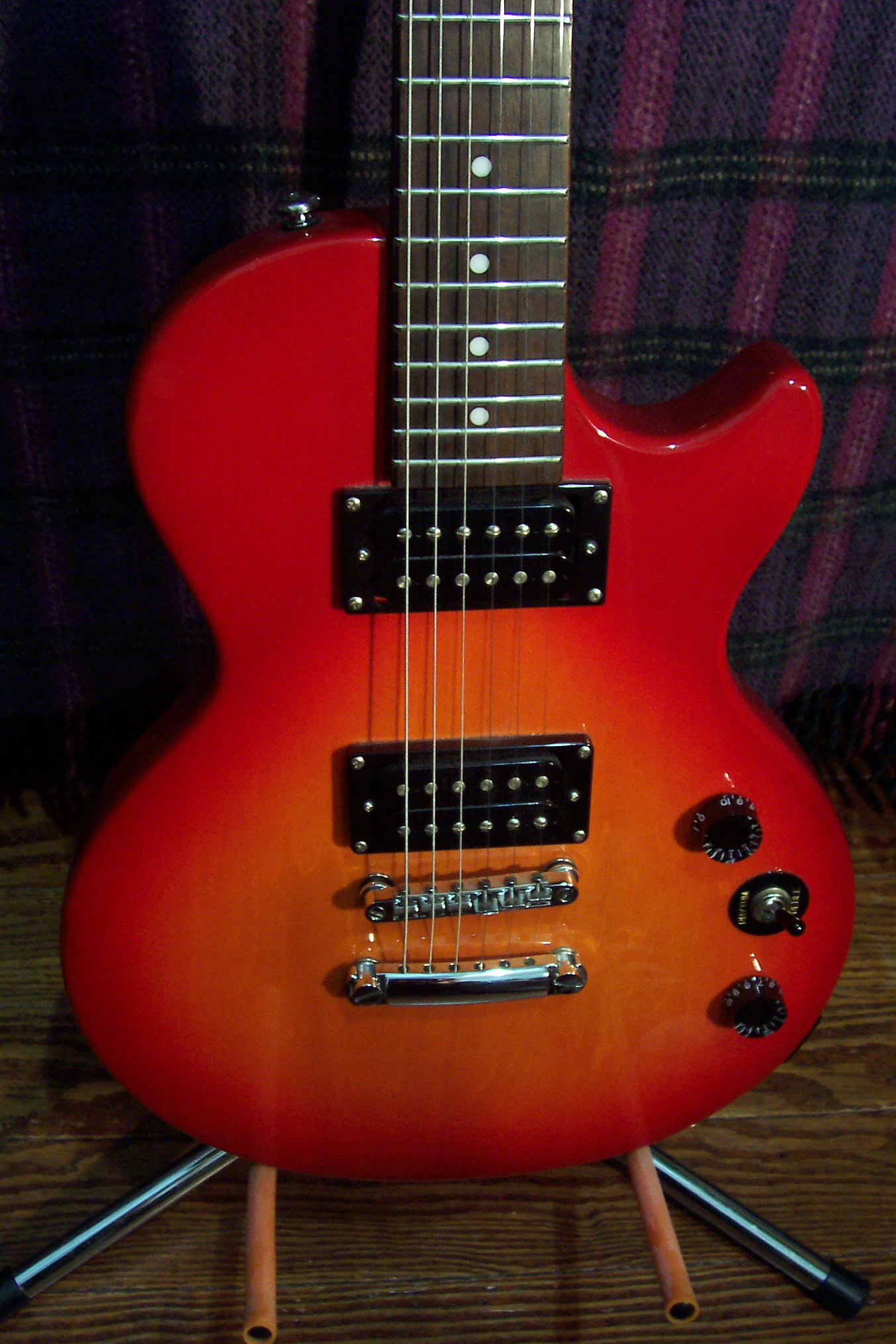 Body of an Epiphone Les Paul Special-II HS electric guitar.